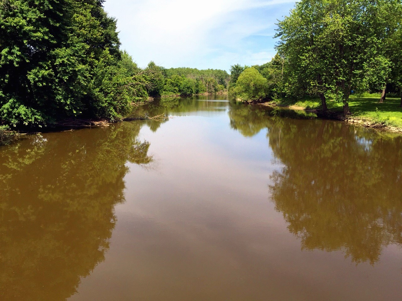 The Bad River viewed from the Saginaw Valley Rail Trail bridge in the Village of St. Charles, Saginaw County.